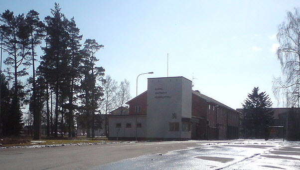 Royal Västergötland Air Force Wing